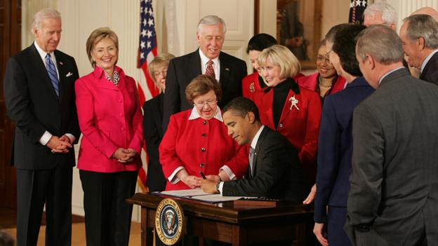 Surrounded by leaders like House Speaker Nancy Pelosi and Secretary of State Hillary Clinton, and with the new law’s namesake, Lilly Ledbetter, at his side, President Barack Obama signs into law the Lilly Ledbetter Fair Pay Act -- a powerful tool to fight discrimination.